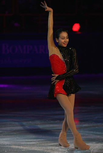 Mao asada during her "Por una Cabeza" exhibition program at the 2008 Trophée Eric Bompard.